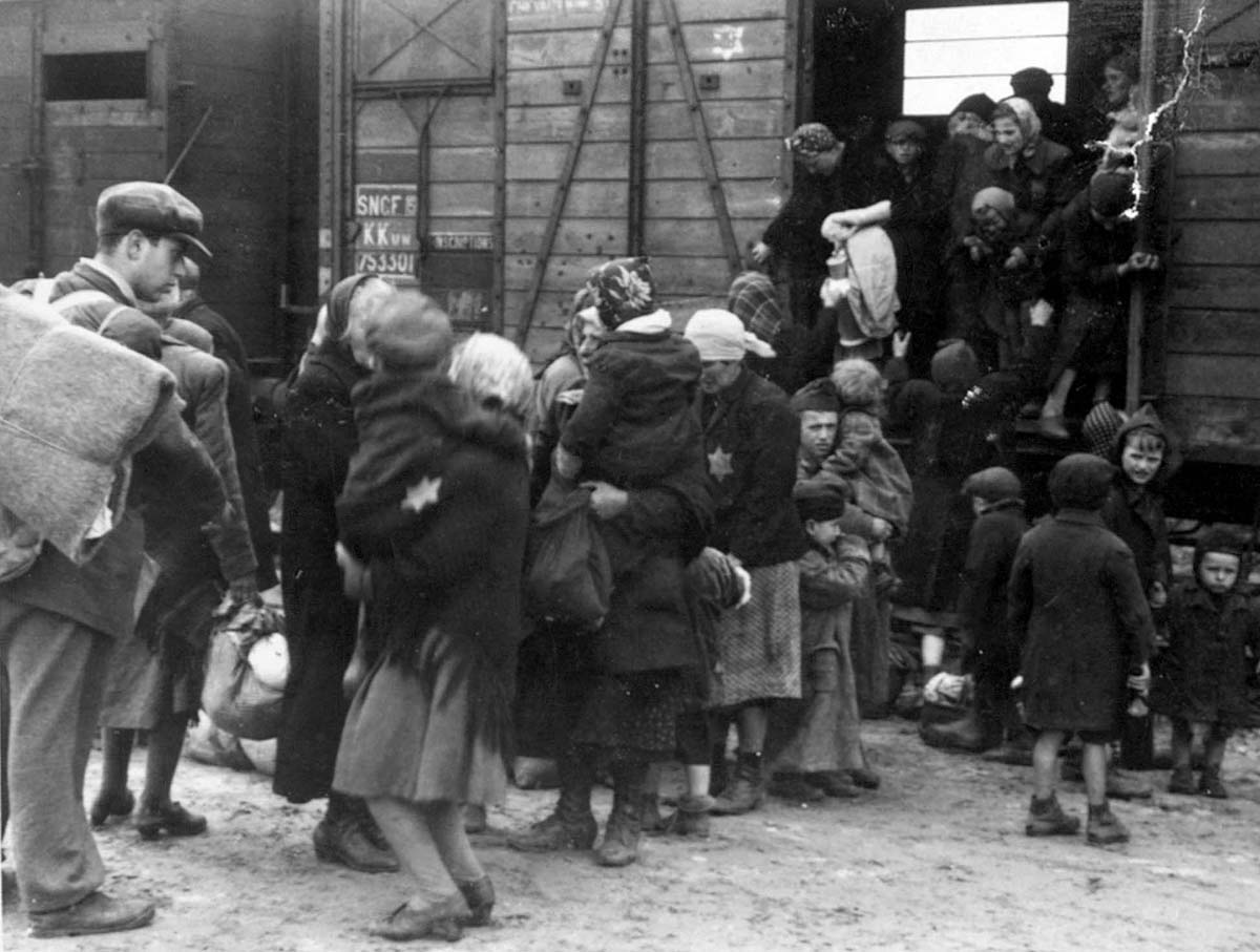 These Jews are from Berehovo, Bilke, and surrounding areas. Railcars are opened by the SS.